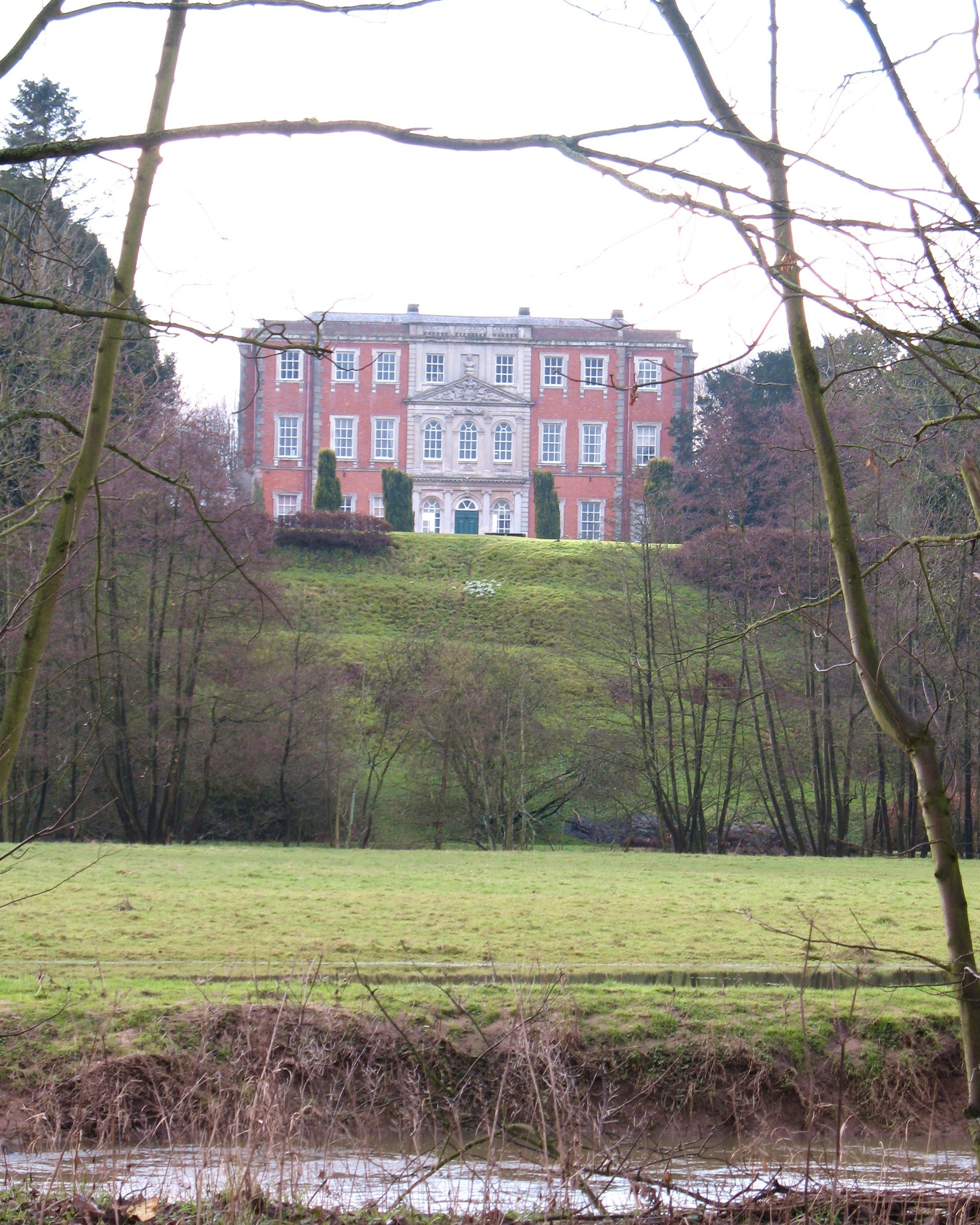 Aldby Park, Buttercrambe Looking across the River Derwent to Aldby Park, a fine early Georgian country house dating from 1726. Built of brick, with a three bay stone section in the centre.